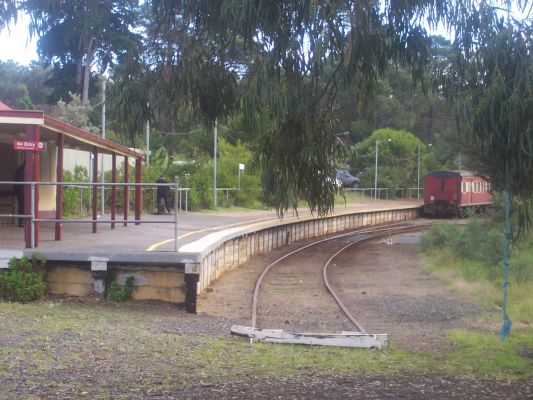 Normal 100 1930